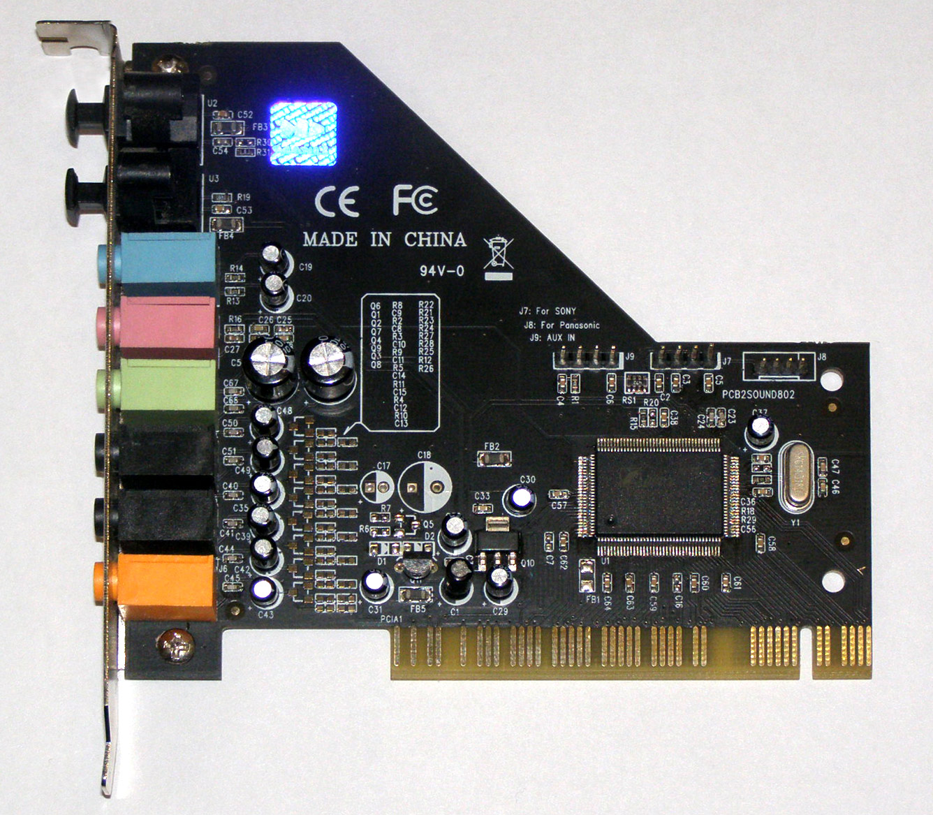 C-media Soundcard PCI 7.1 OEM (M-CMI8768-8CH)